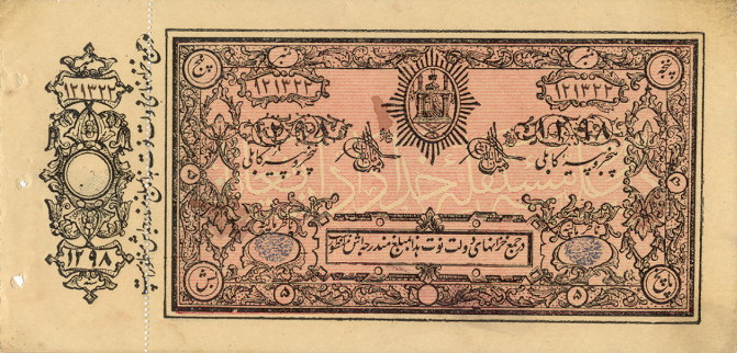 5 rupees